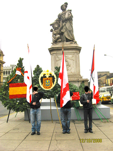 An act of tribute by the National Socialist Movement of Peru (MNSDP aka Nazism) at the Christopher Columbus Monument in Lima, Peru, 12 October 2008.